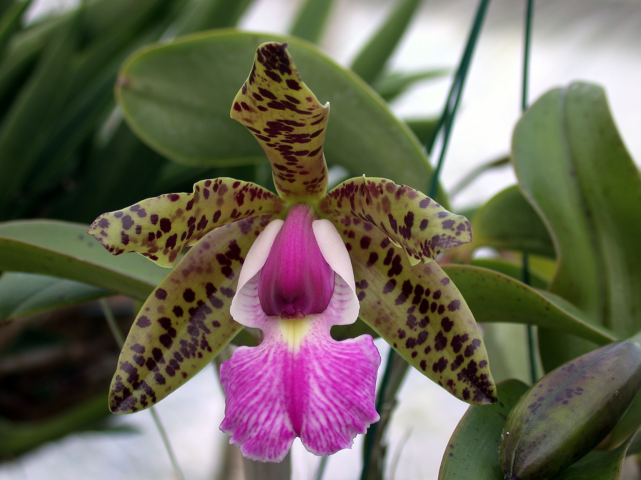 Cattleya aclandiae